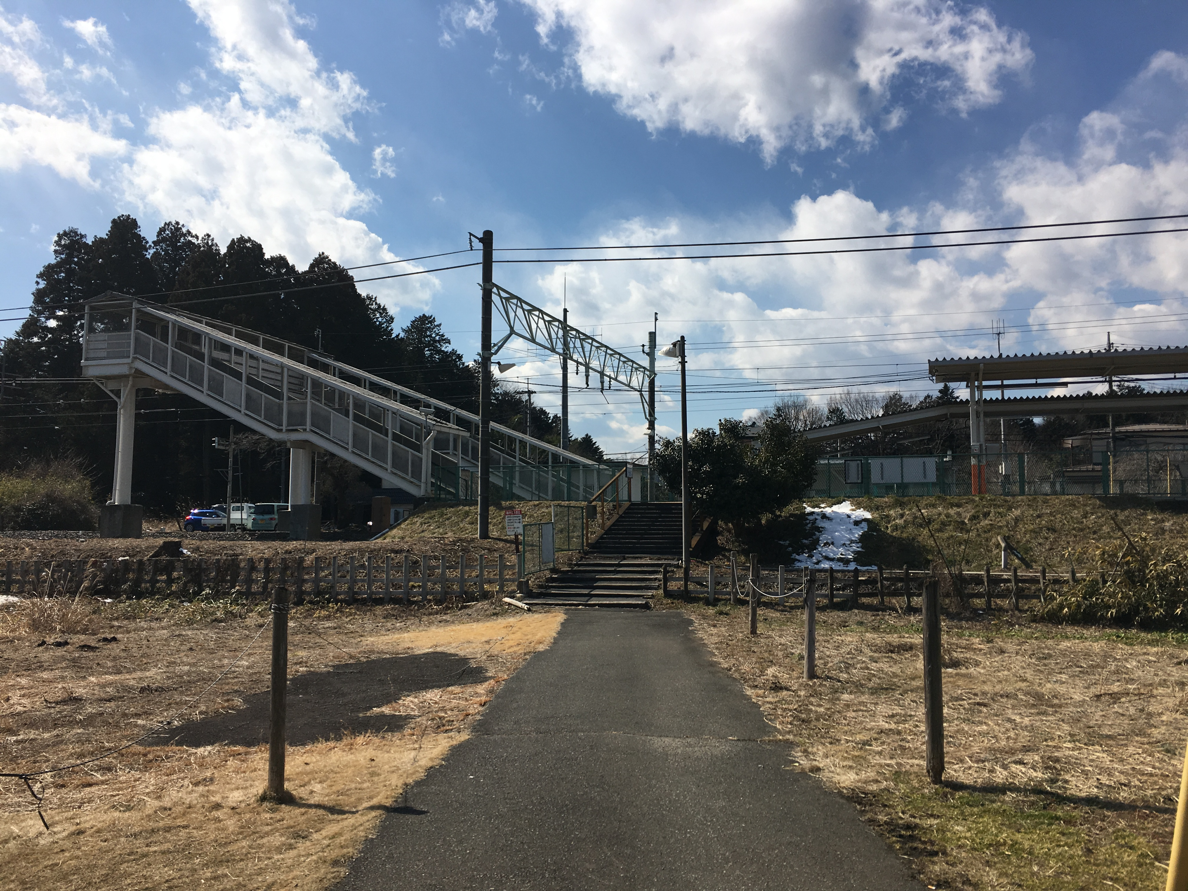 Myōjin Station east entrance (Tōbu Nikkō Line in Japan)